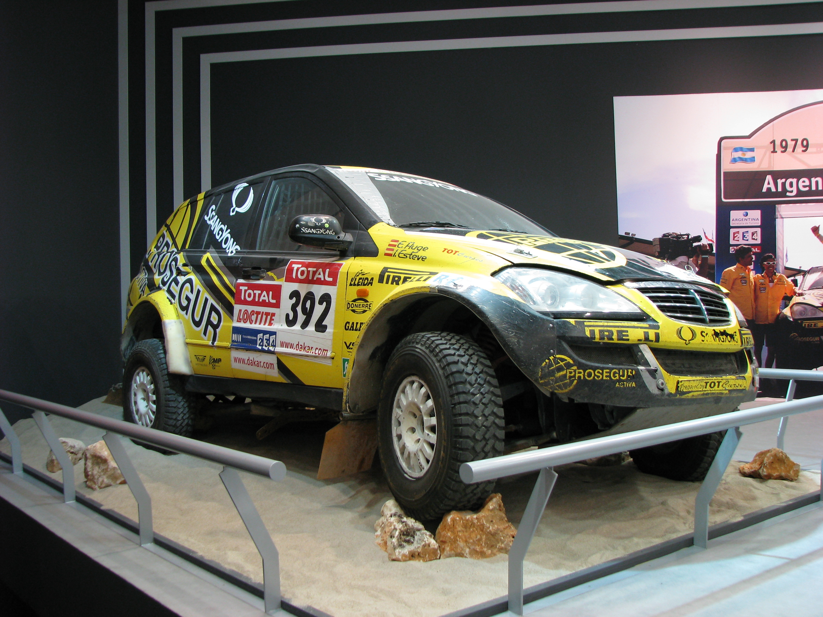 Ssangyong Kyron used by Isidre Esteve exhibited at the Salon International de l'Automobile 2009 in Barcelona.